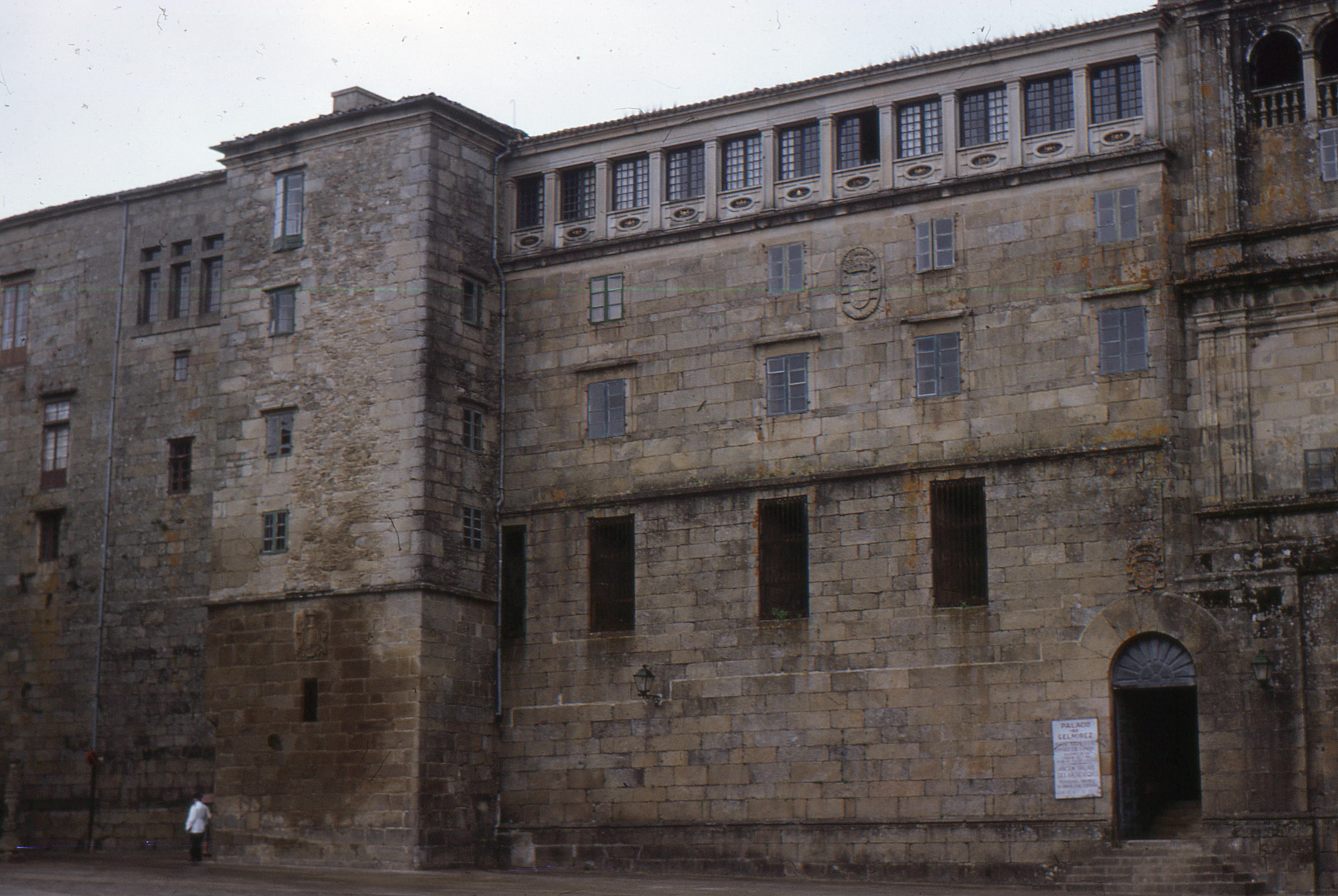 Palace of Gelmírez, part of the Cathedral of Santiago de Compostela in Santiago de Compostela, Galicia, Spain.